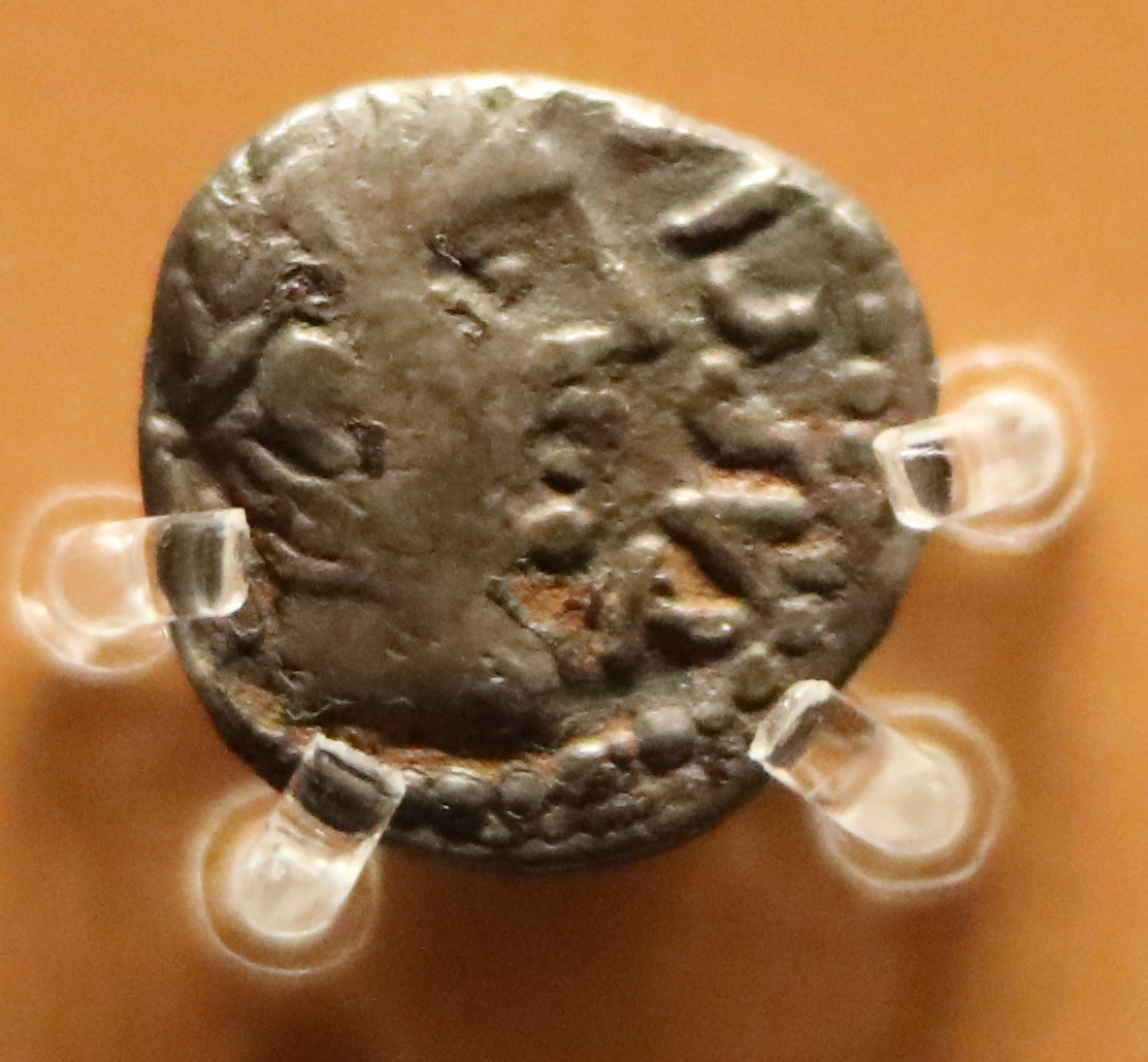 Photo of a silver unit of Tasciovanus showing a face in profile